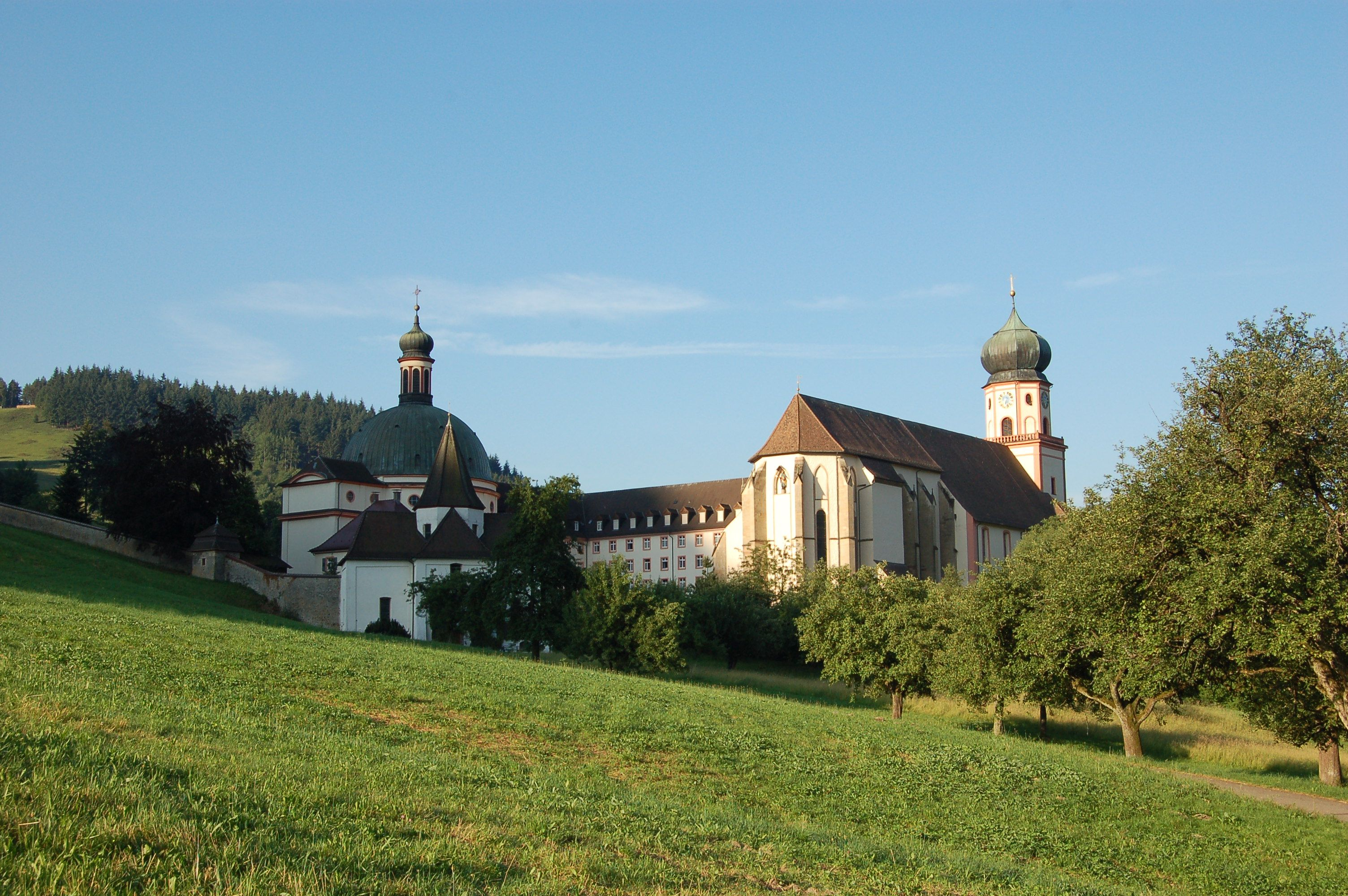 Monastery Saint Trudpert, Münstertal (Black Forrest)